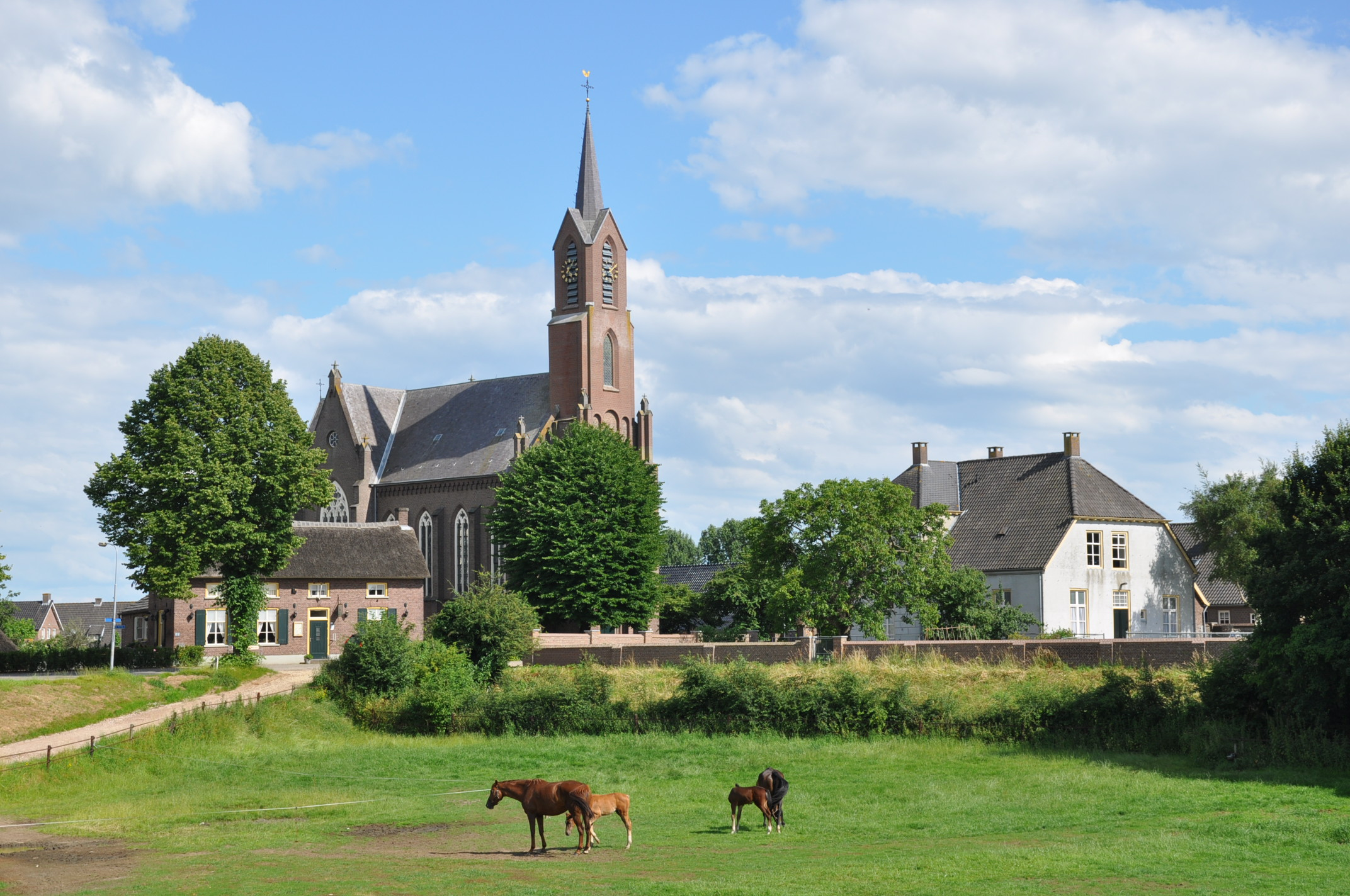 Alem, a village within the municipality Maasdriel (Gelderland province, Netherlands), with the Saint Hubertus church (built in 1873, Roman Catholic).